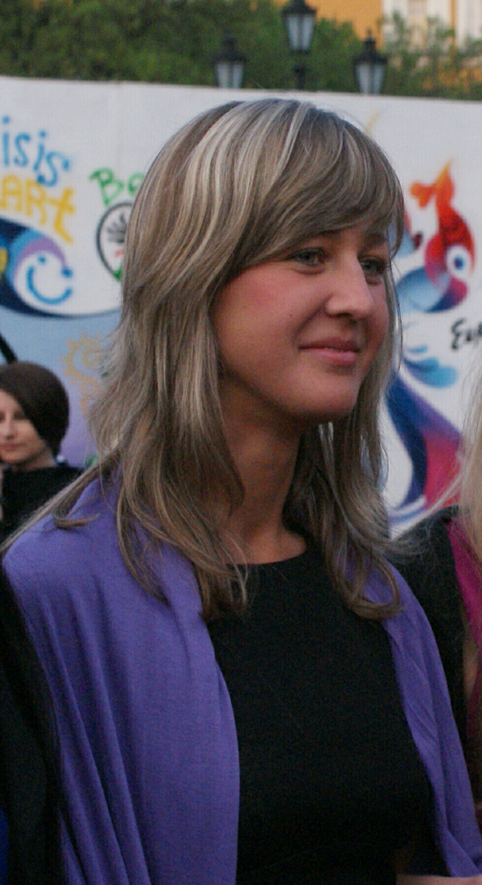 Urban Symphony in Moscow, 2009. Mann Helstein